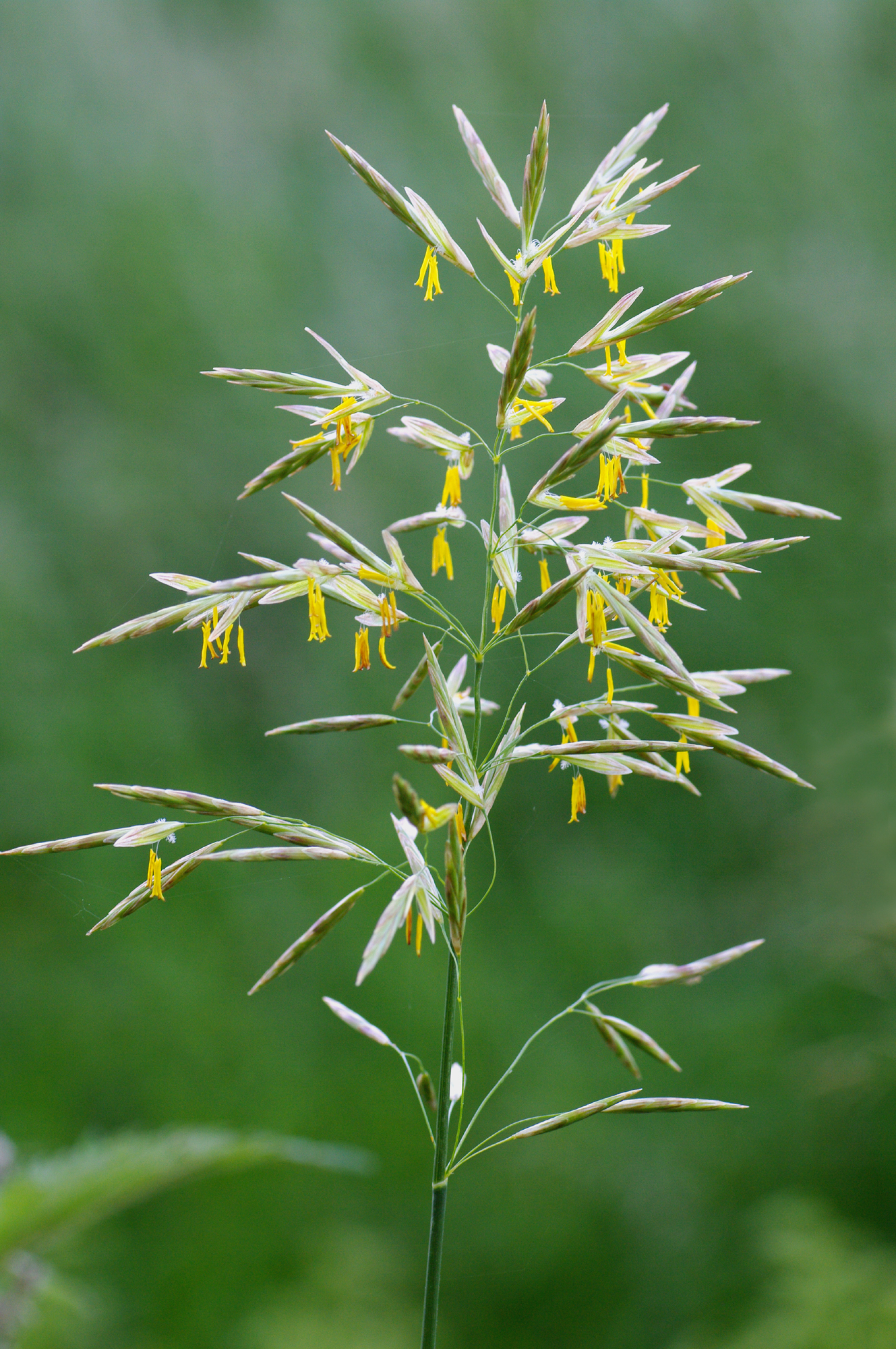 Flowering Smooth/Austrian/Hungarian bromegrass (Bromus inermis).